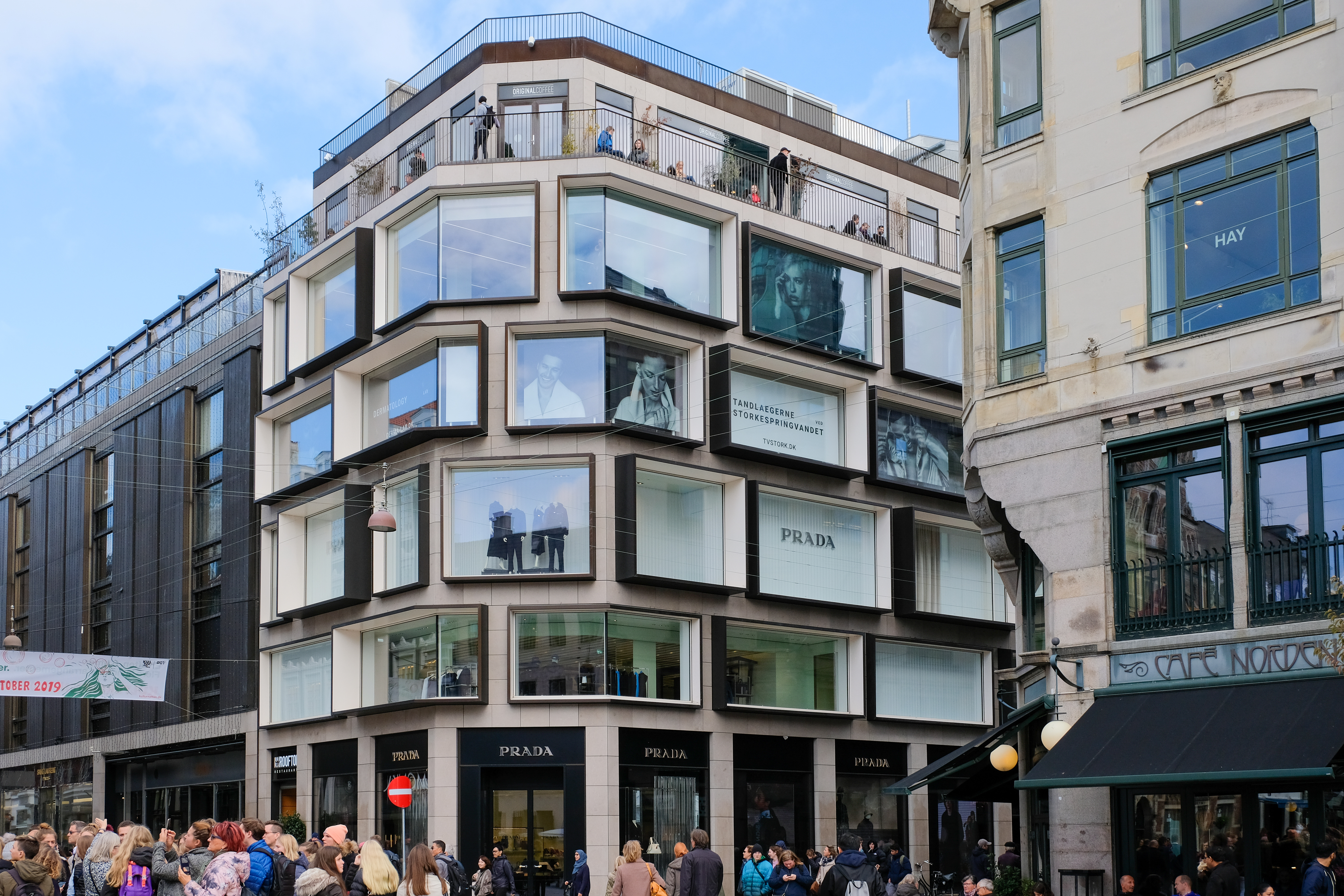 Free CC0 Stock Photo of Shopping Building in Copenhagen Center - Check out more free photos on